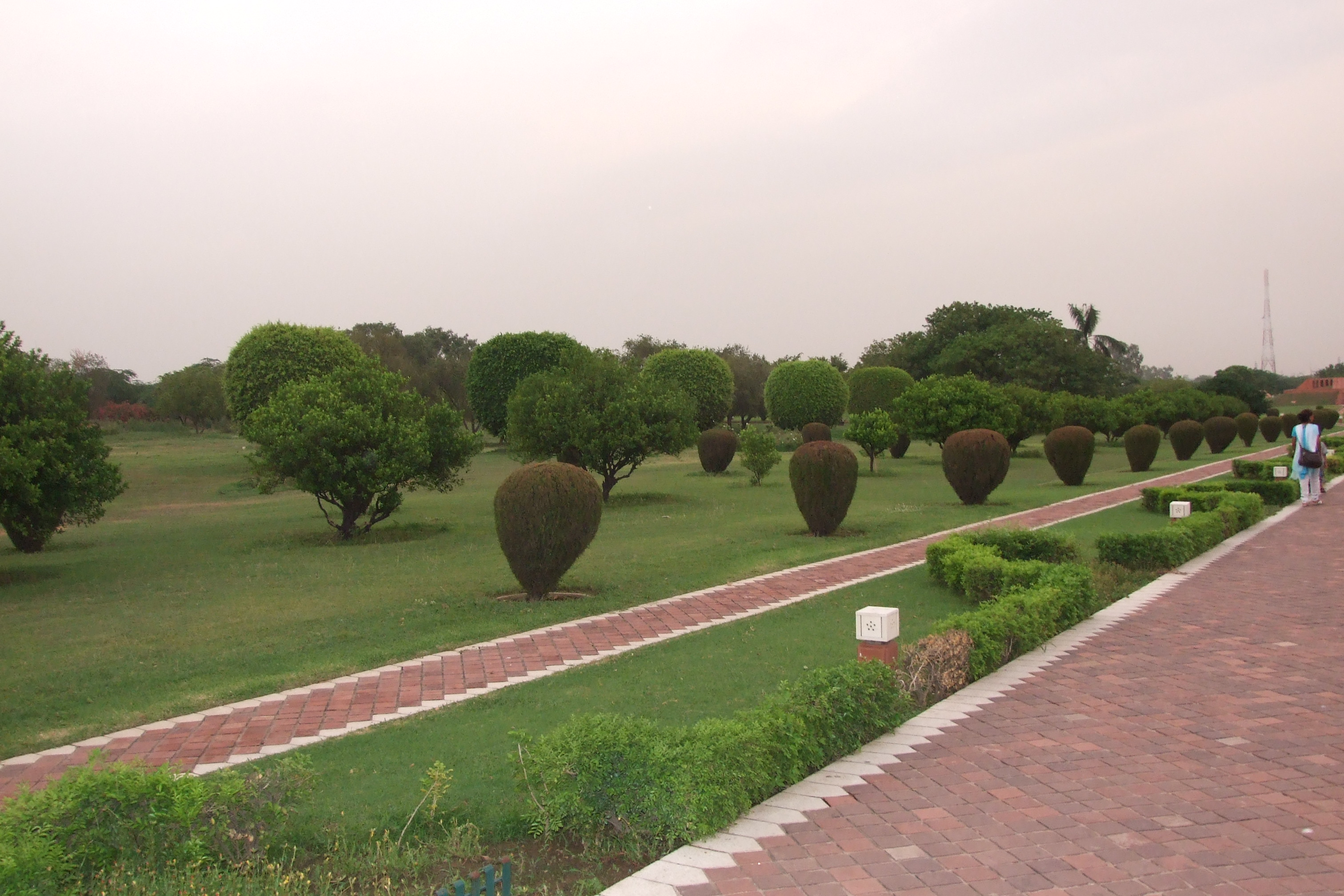 Gardens at the Bahá'í House of Worship, New Delhi, India